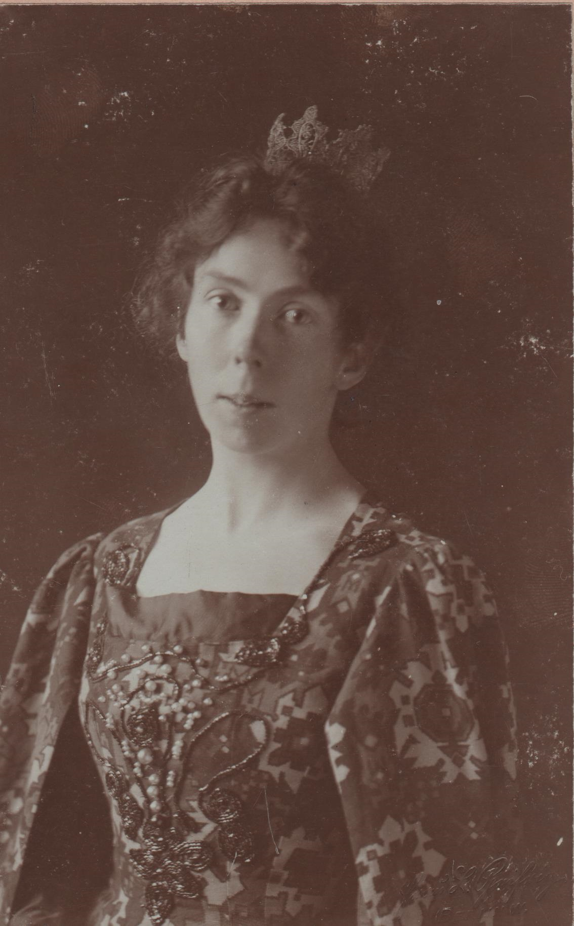 Portrait of the German writer Elisabeth Siewert (1867-1930)